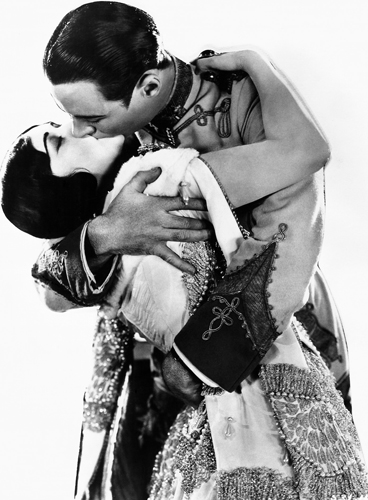 Publicity portrait of Pola Negri with Rod La Rocque from the American drama film Forbidden Paradise (1924).